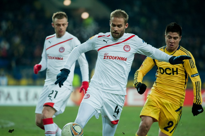 Swedish football player during match Metalist Kharkiv vs Olympiacos Pireus